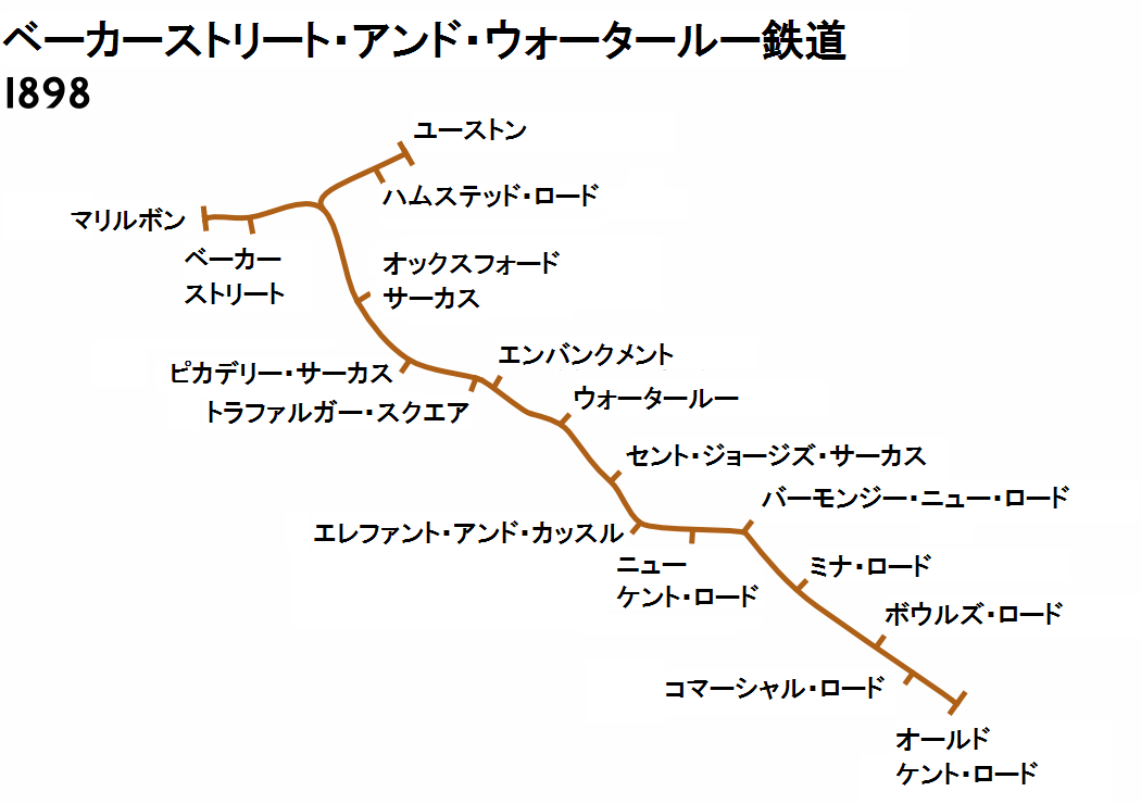 Geographic Map of the Baker Street & Waterloo Railway, 1898.